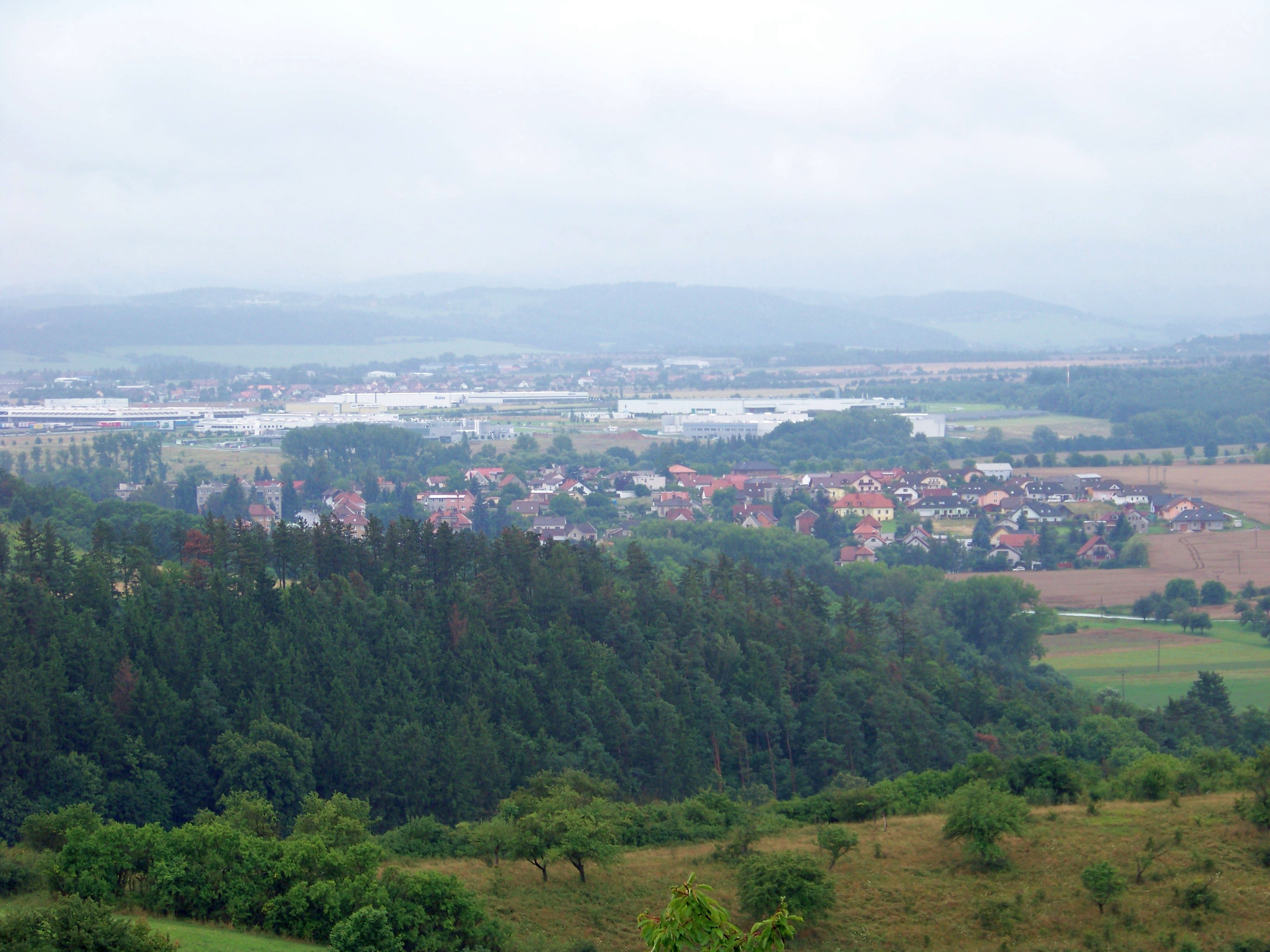 Beroun District, Central Bohemian Region, the Czech Republic. A view of Žebrák city from a way to Točník castle.